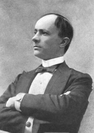 American actor, patternmaker, stove designer and furniture maker, circa 1903. In the March 1903 Successful American page, 194